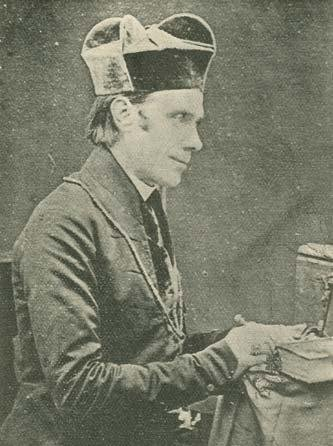 William Walsh Source: Archives de MontrÃ©al